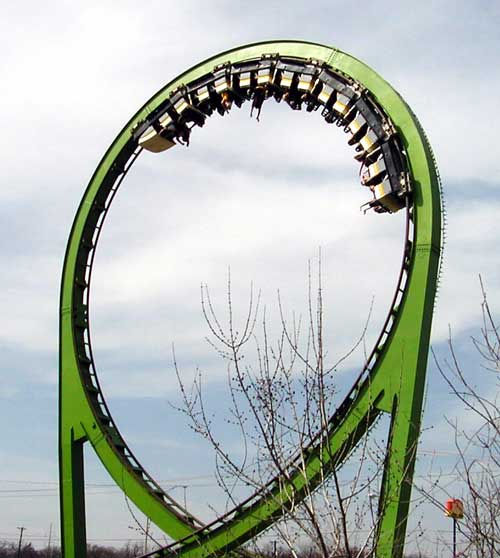 Image of the Shockwave roller coaster at Six Flags over Texas.